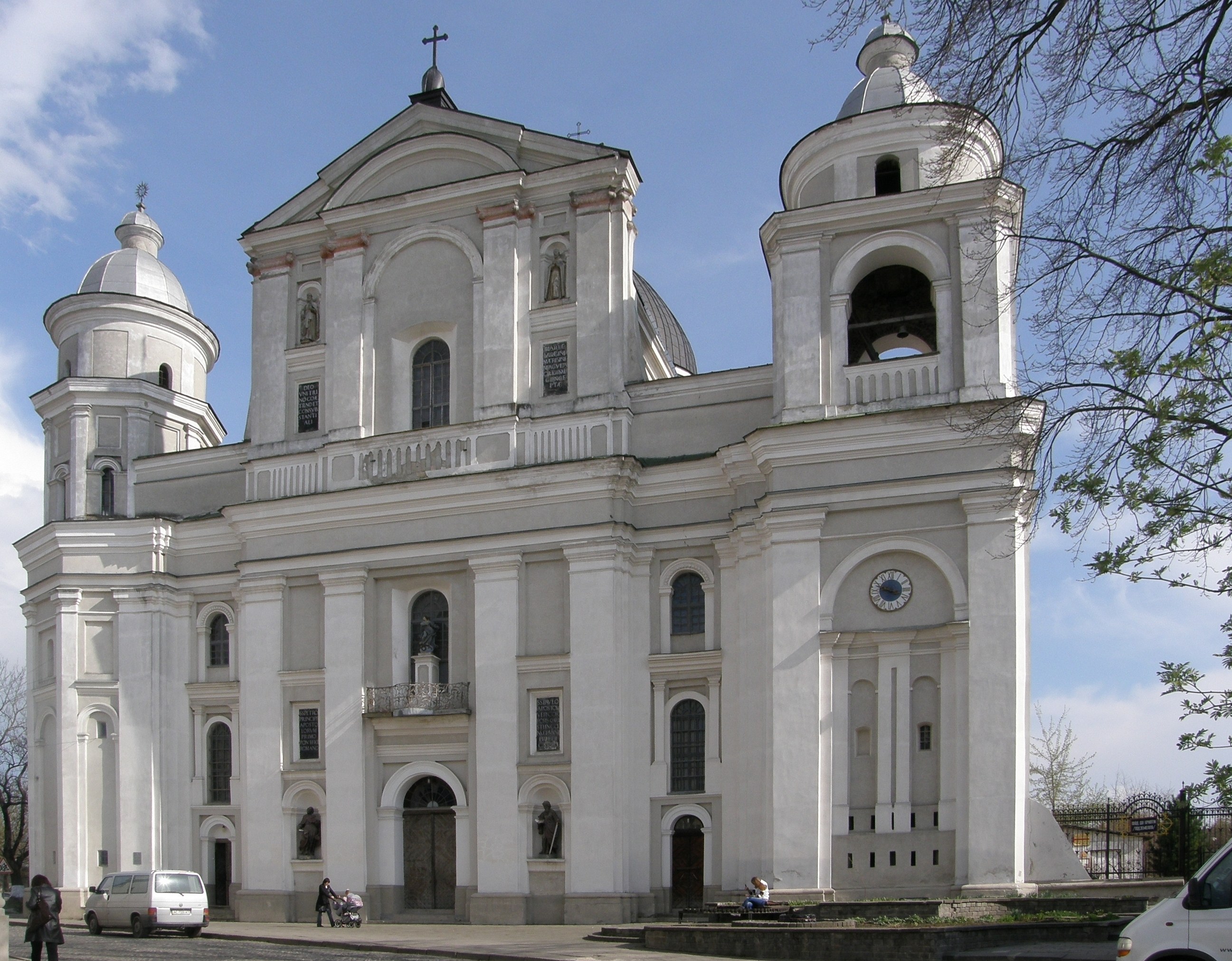 The katholic church "Peter und Paul" in Luzk